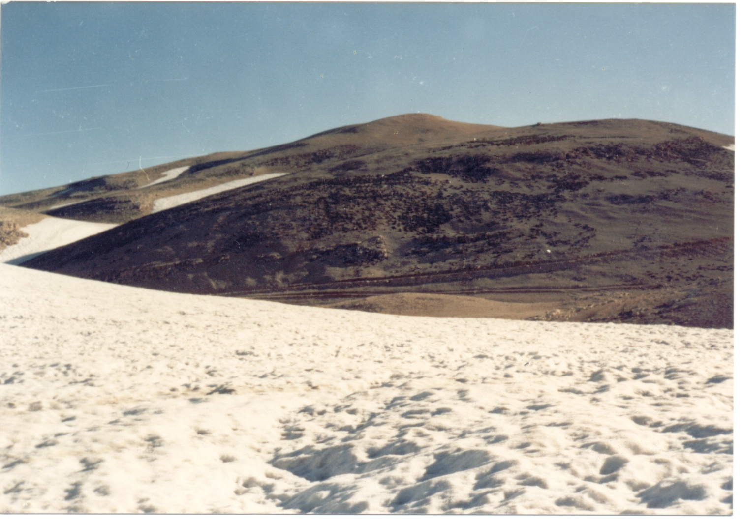 View from the south of the Qurnat As Sawda, Lebanon's highest peak at 3,088 meters, taken on 9 June 1985 during the Lebanese civil war.